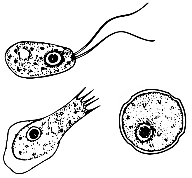 Stages of Naegleria fowleri, a member of the Percolozoa.